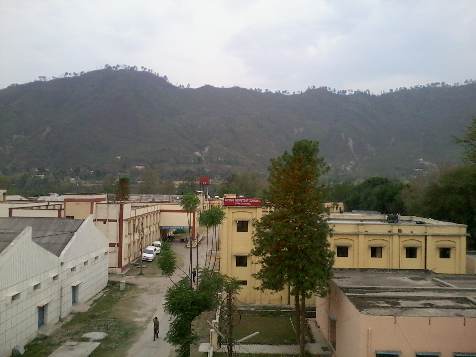 campus